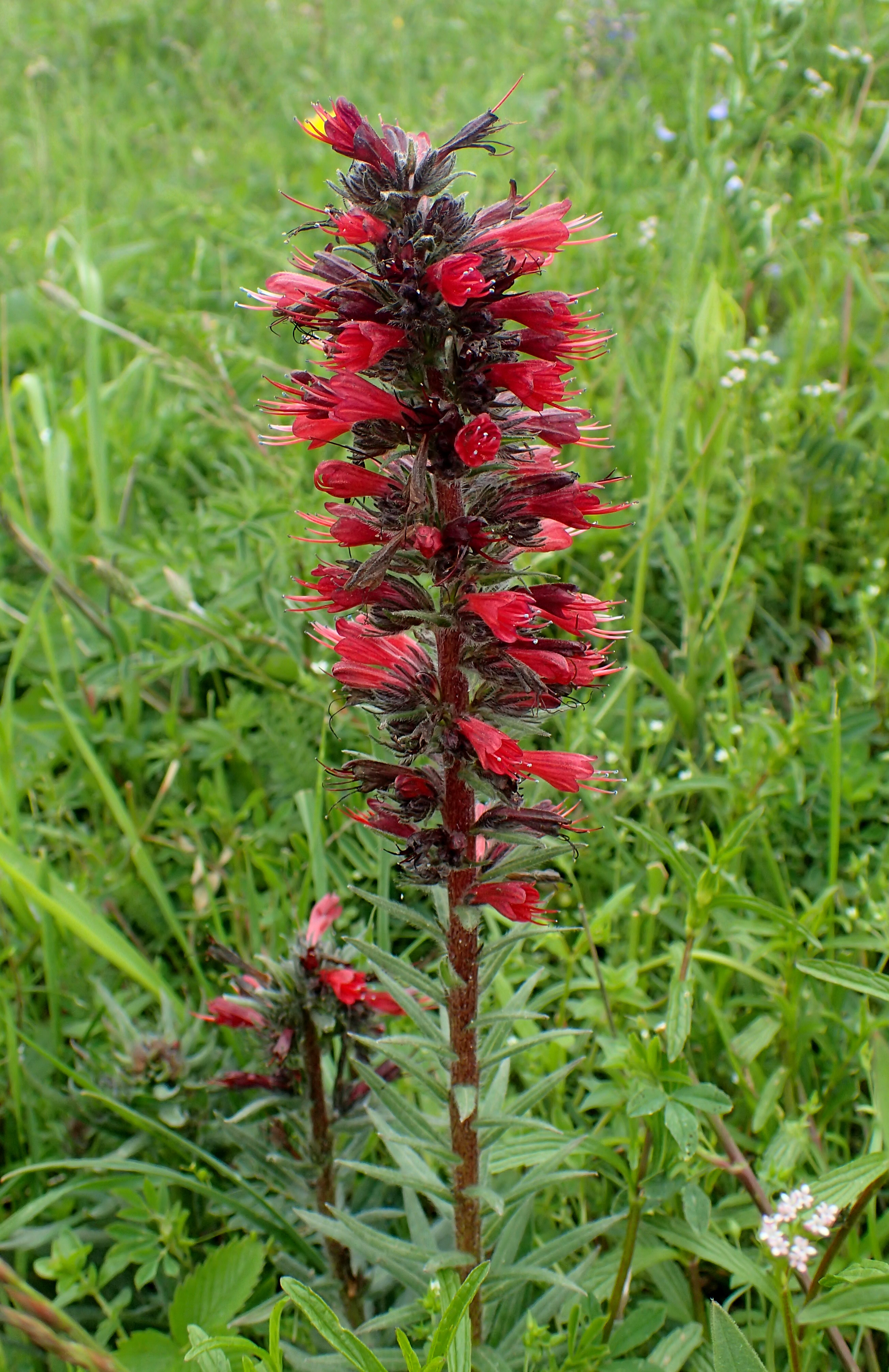 Echium russicum in vicinity of Shahumyan, near Wanadzor, Armenia